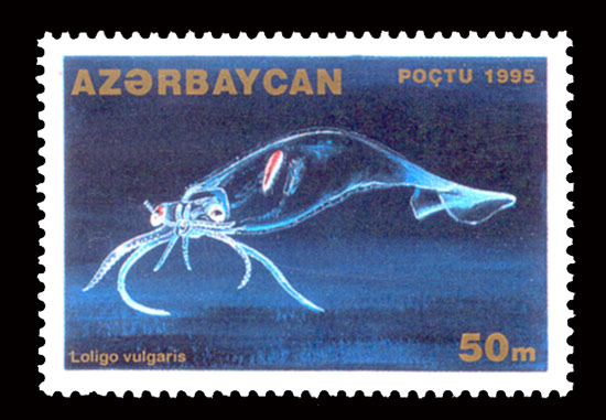 Stamp of Azerbaijan. Loligo vulgaris.